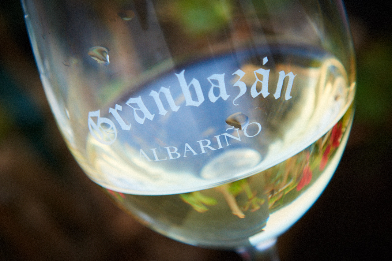 Glass of wine Granbazán